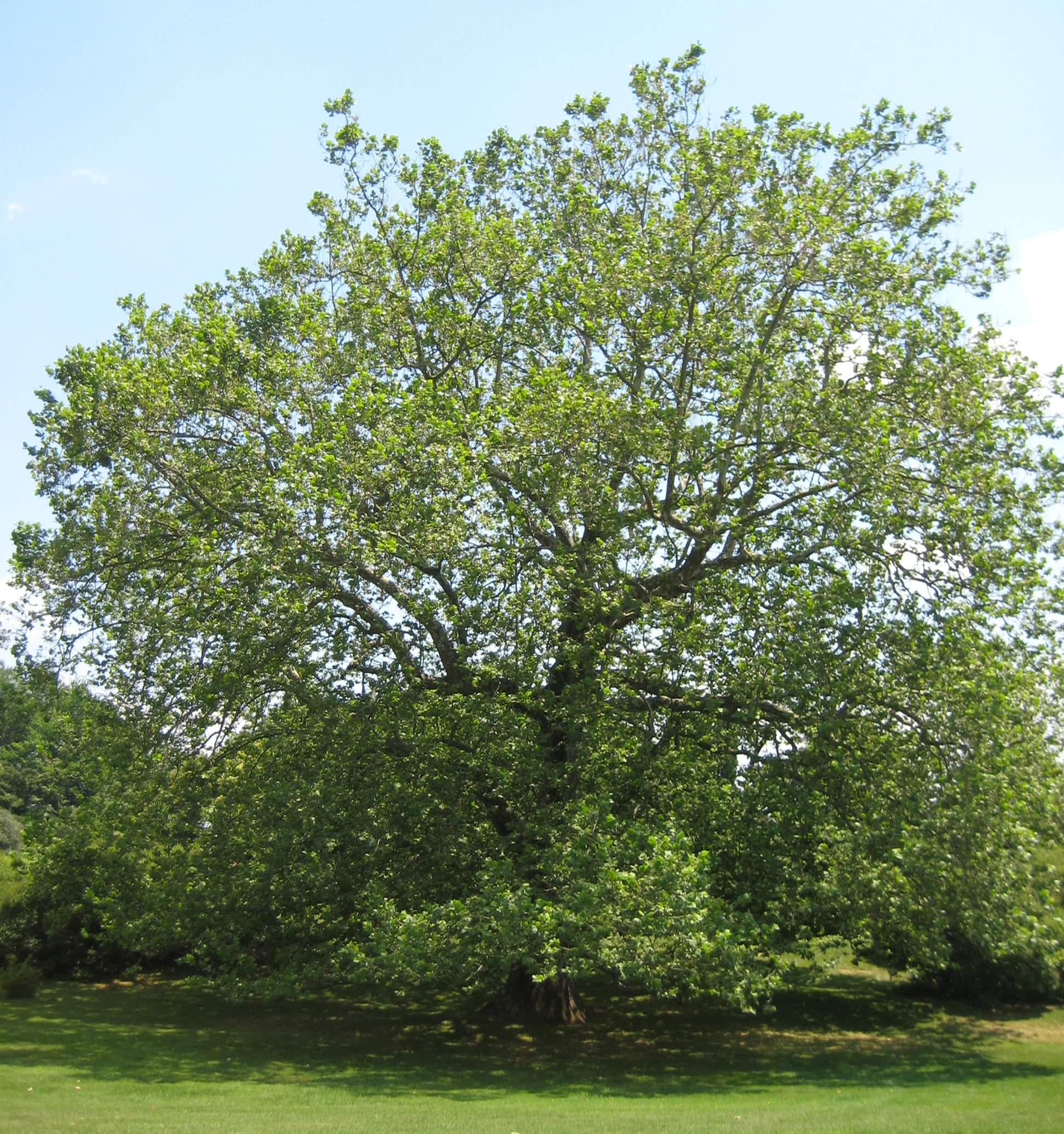 Photograph of the largest and oldest American Sycamore Platanus occidentalis tree on the grounds of the Winterthur Country Estate Museum. According to a promotional magazine published by Winterthur, this tree may be over 250 years old. A core sample is unobtainable because around 1955, the tree had substantial core rot, and a tree surgeon devised a plan to fill the empty core with concrete, rubble, reinforced with metal bars, and even a long cable (to support a weak branch). The tree's bark and outer layers of cortex have grown back around that artificial core, and the tree survives to date (2008) because of (or despite) these efforts.